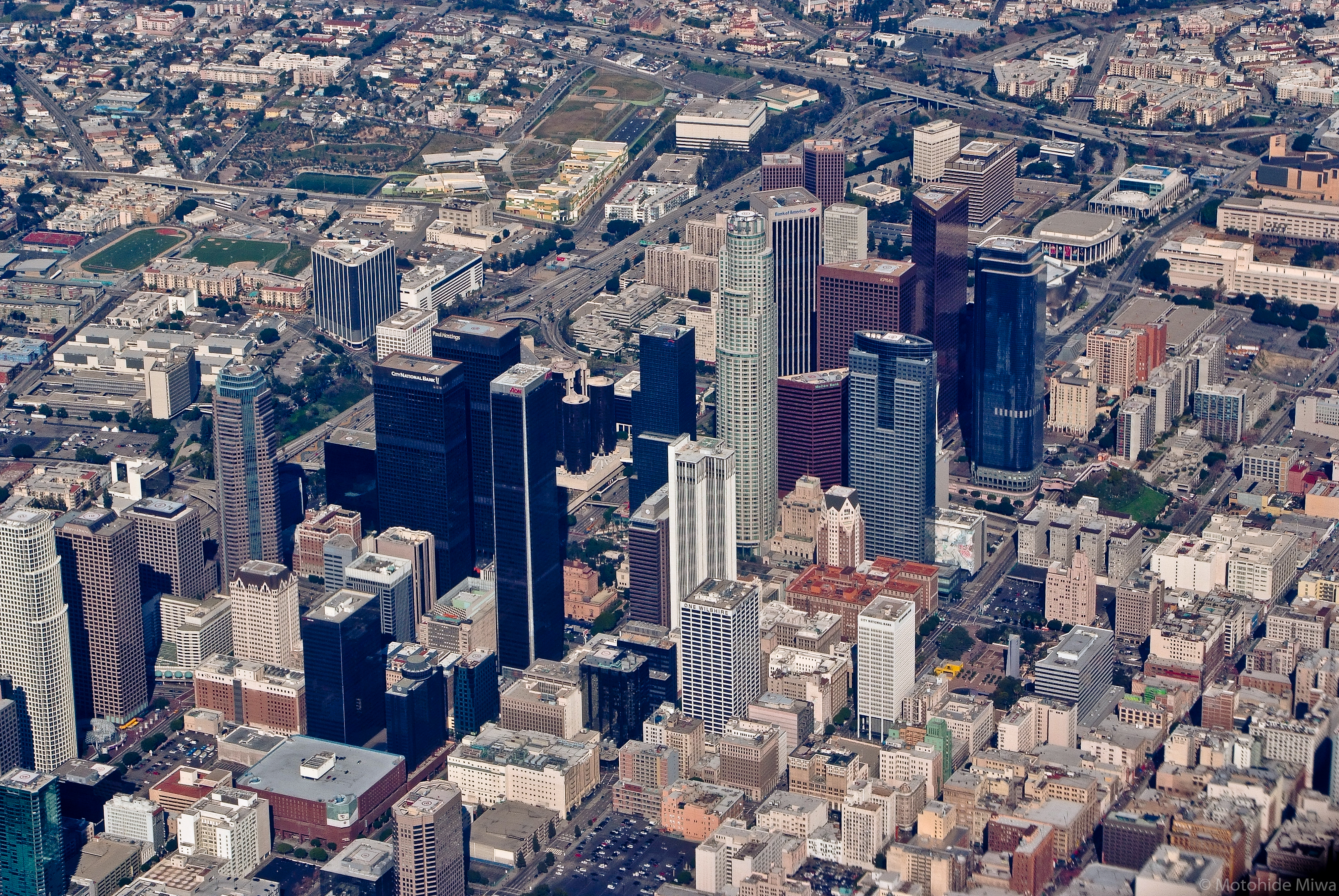 Downtown LA